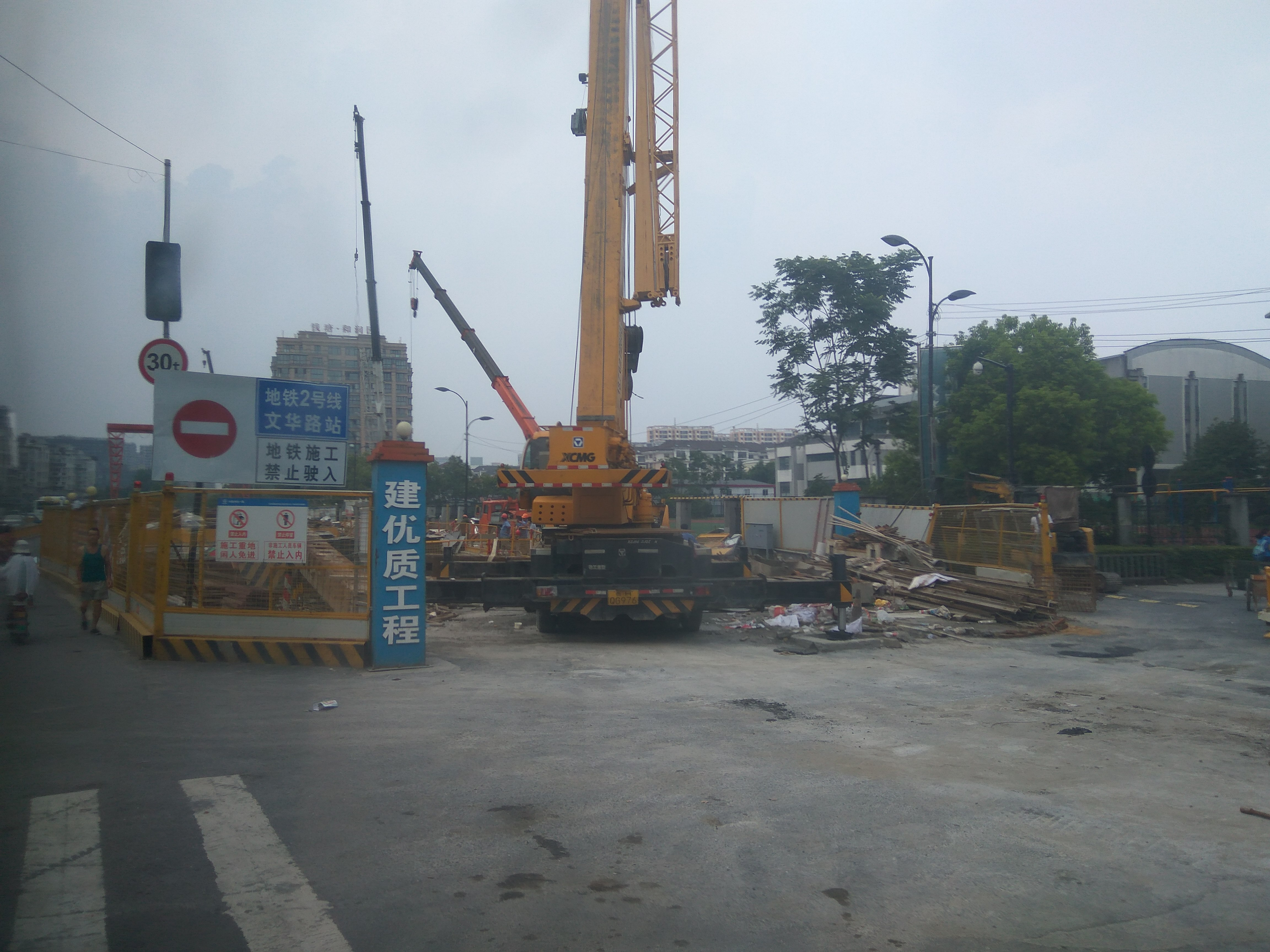 201608 Wenhua Road Station under construction